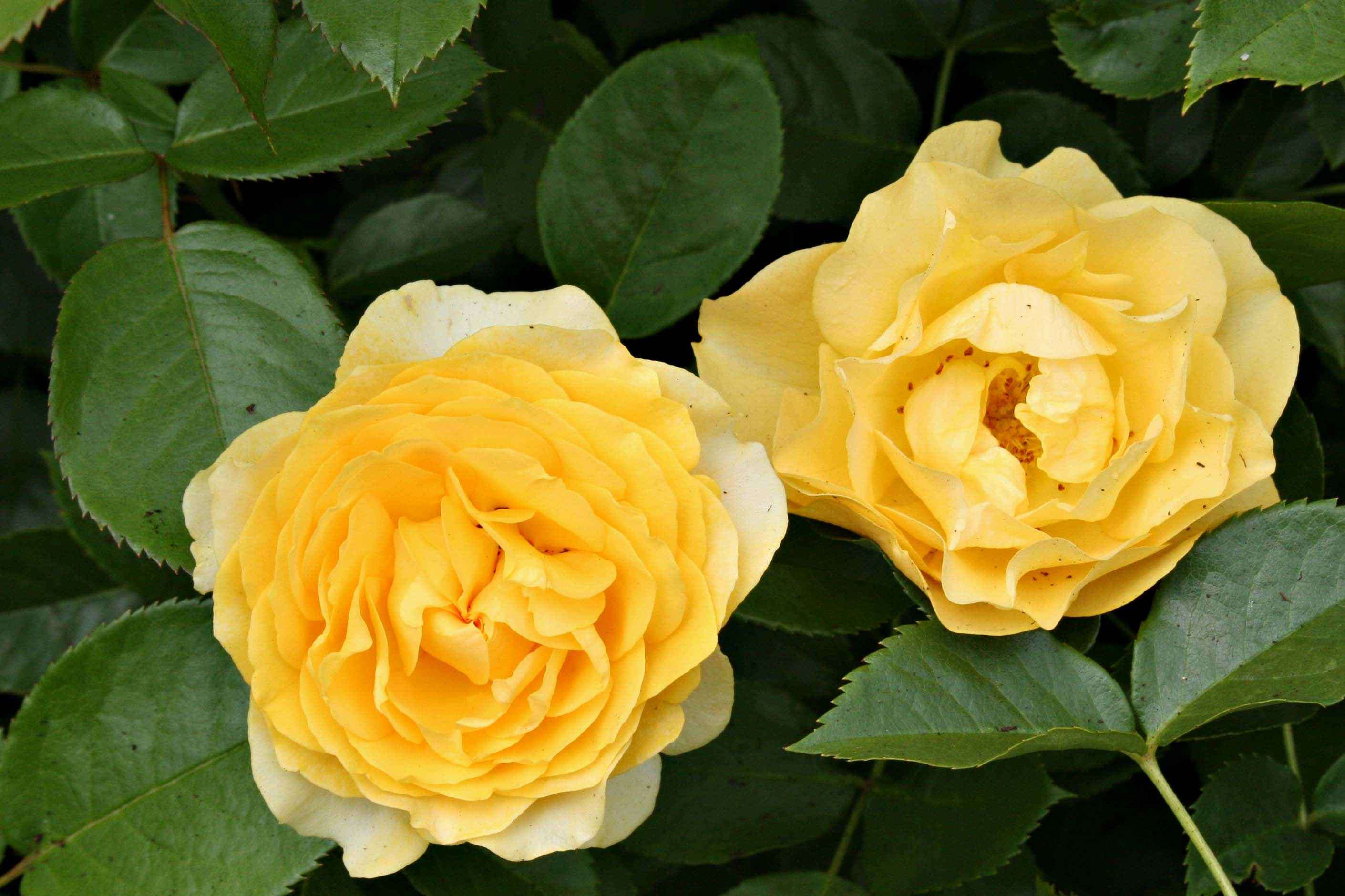 Lemony/yellow Julia Child rose